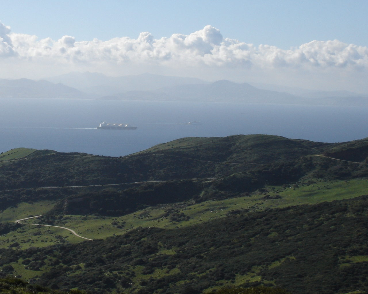 I took this photo on 18 February 2007 from the hills above Tarifa, Spain